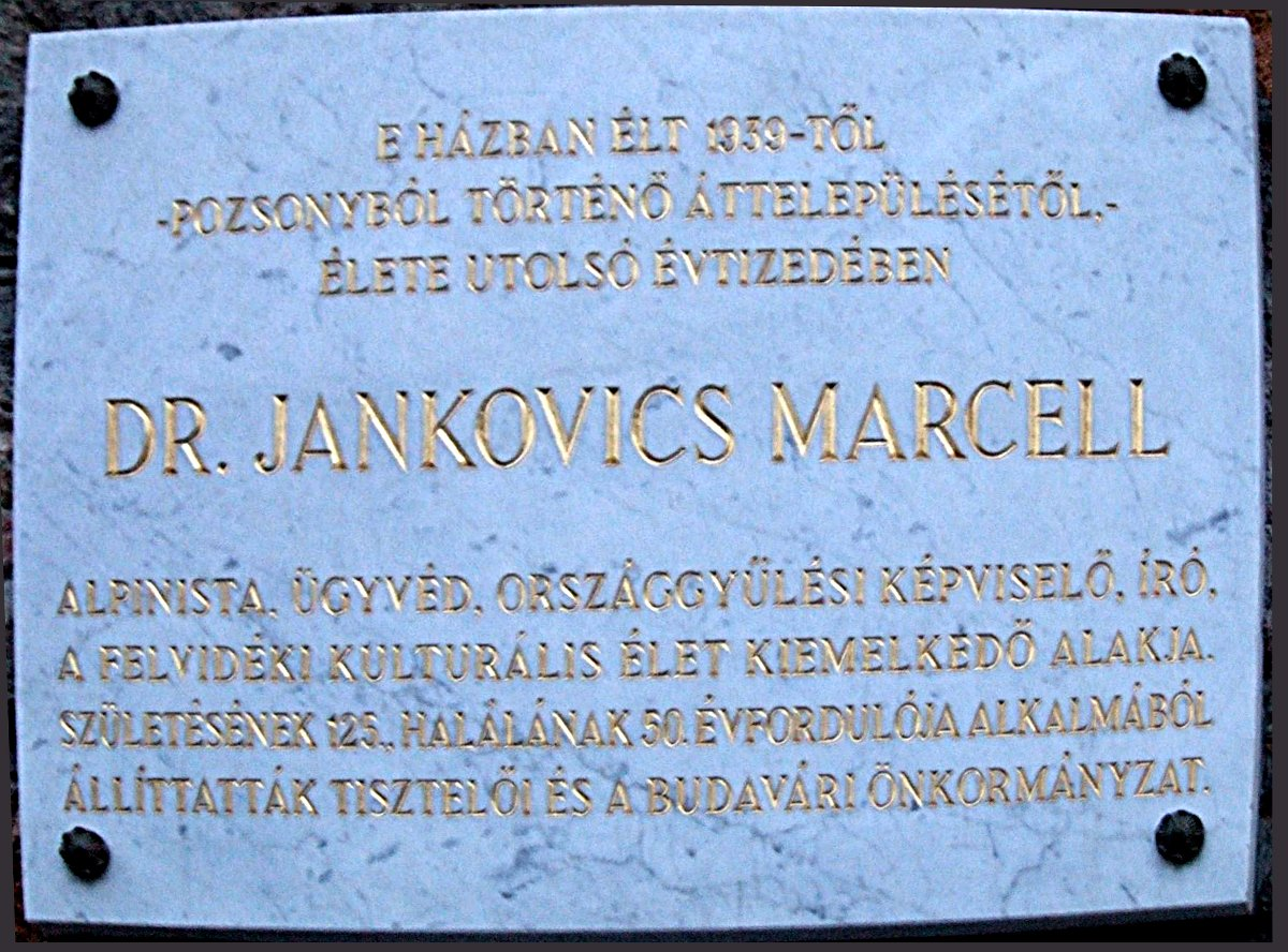 Commemorative plaque of Marcell Jankovics (1874 – 1949), Budapest District I, Pauler Street No 19